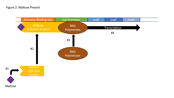 This is a diagram of a maltose operon when maltose is present in E. coli. Because maltose is present, transcription of the maltose genes, malE, malG, and malF will occur.